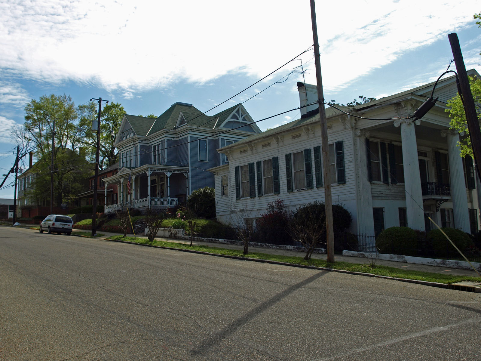 The Dowe Historic District in Montgomery, Alabama; showing 114 S. Hull (left) and 334 Washington.